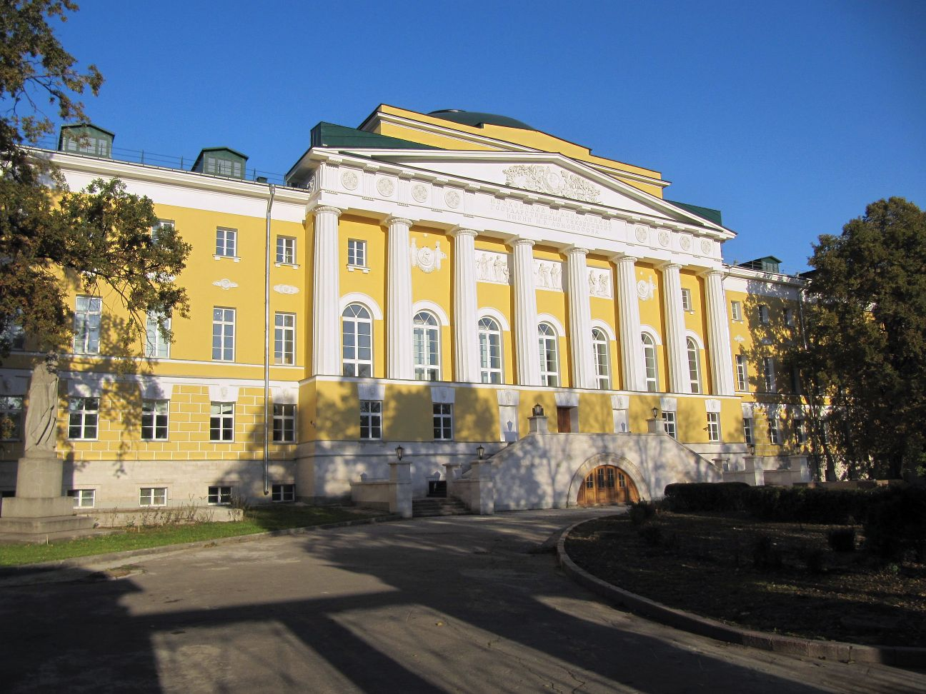 Lomonosov Moscow State University. The so-called "Old Building" was built in 1793 and rebuilt in 1819. Architects - Matvey Kazakov, Domenico Gilardi, Afanasy Grigoriev. Today - The Institute of Asian and African Studies.